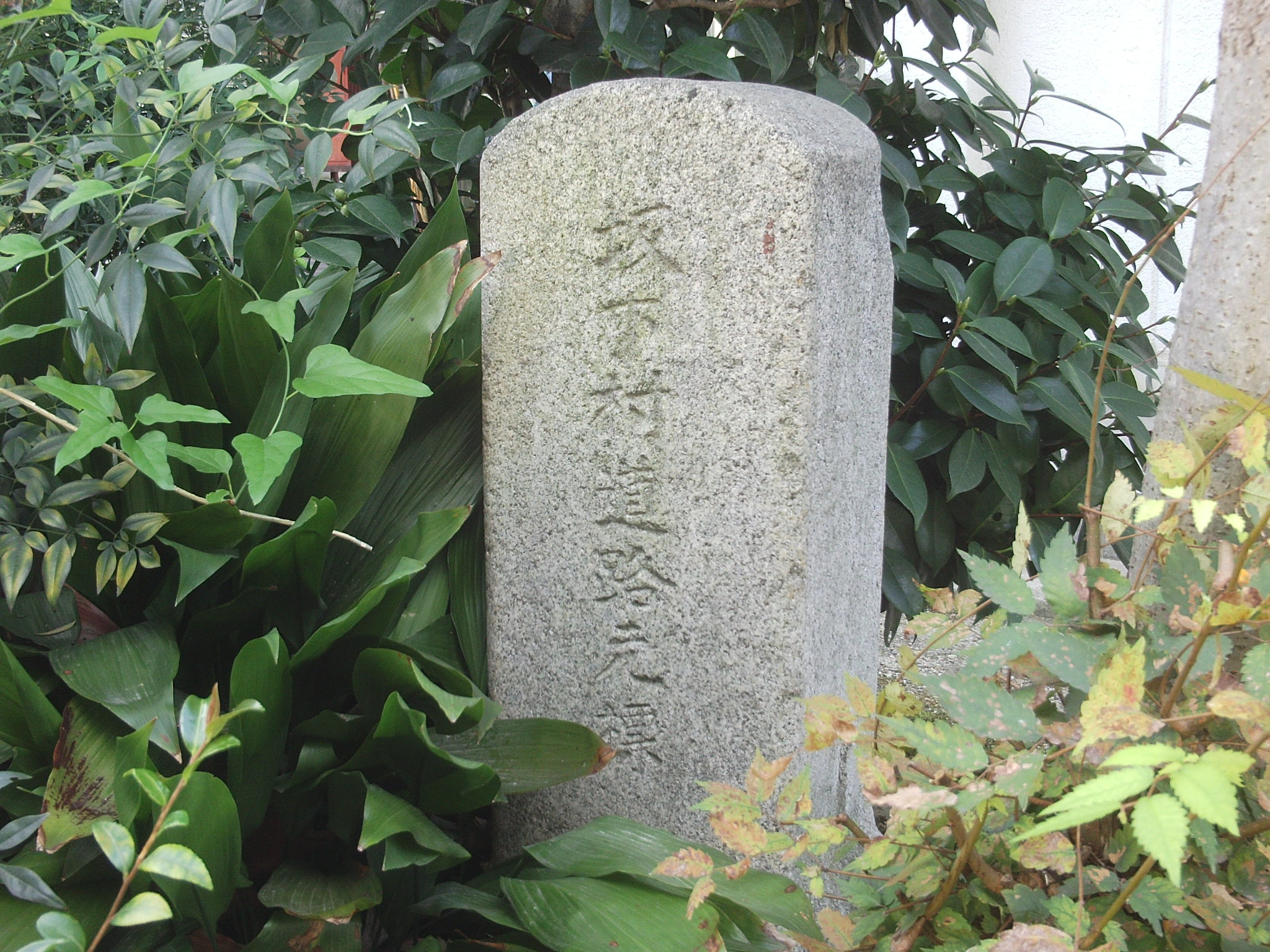 Kilometre zero of Sakashita village. (Sakashita village, Higashikasugai-gun, Aichi.)